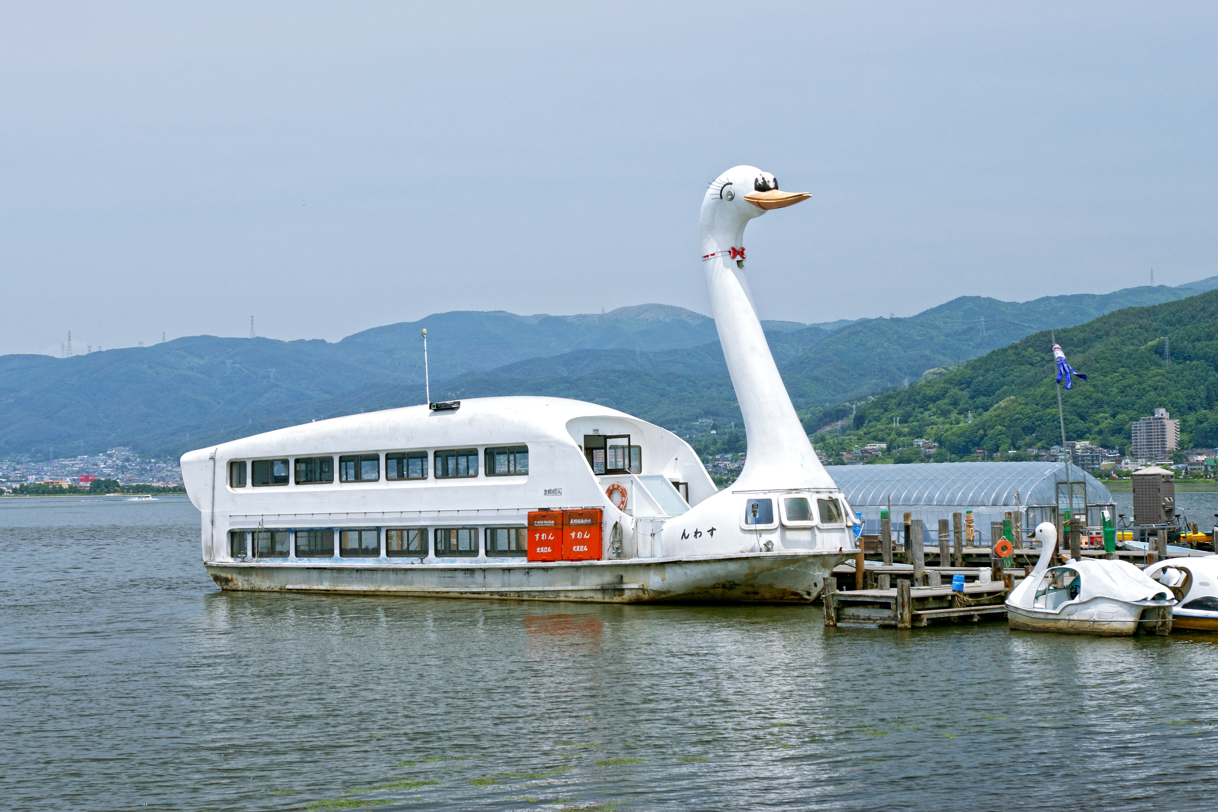 Lake Suwa at Suwa, Nagano prefecture, Japan